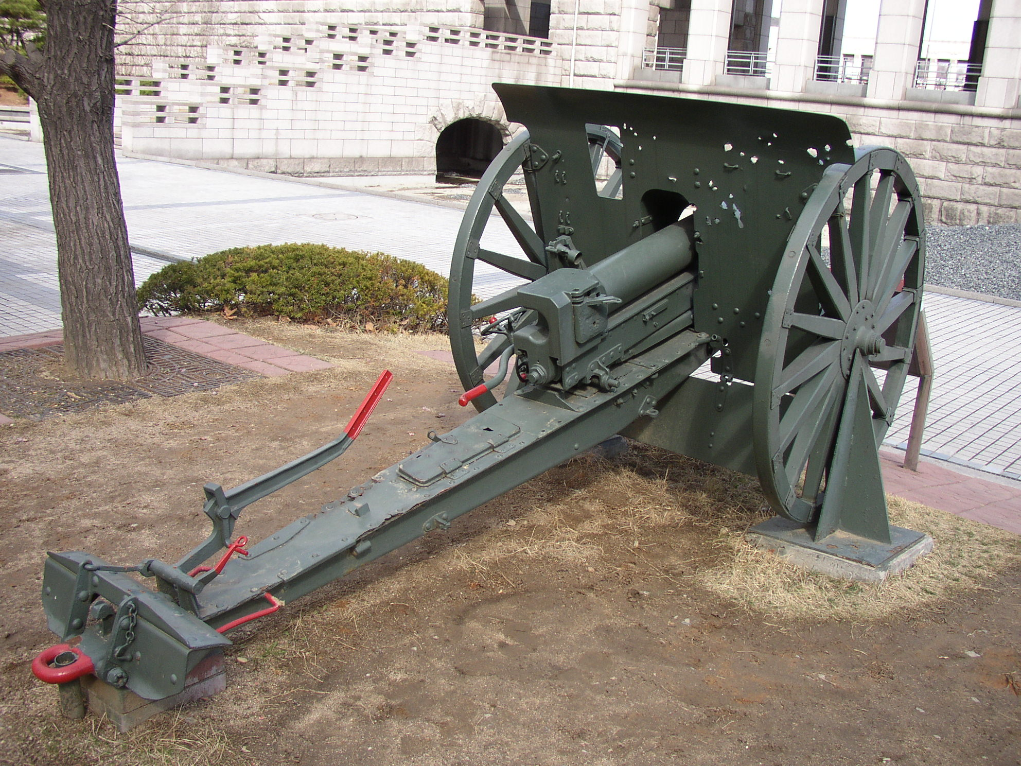 75mm Mountain Howitzer, Type 94 (P.R.C) displayed at War Memorial of Korea.